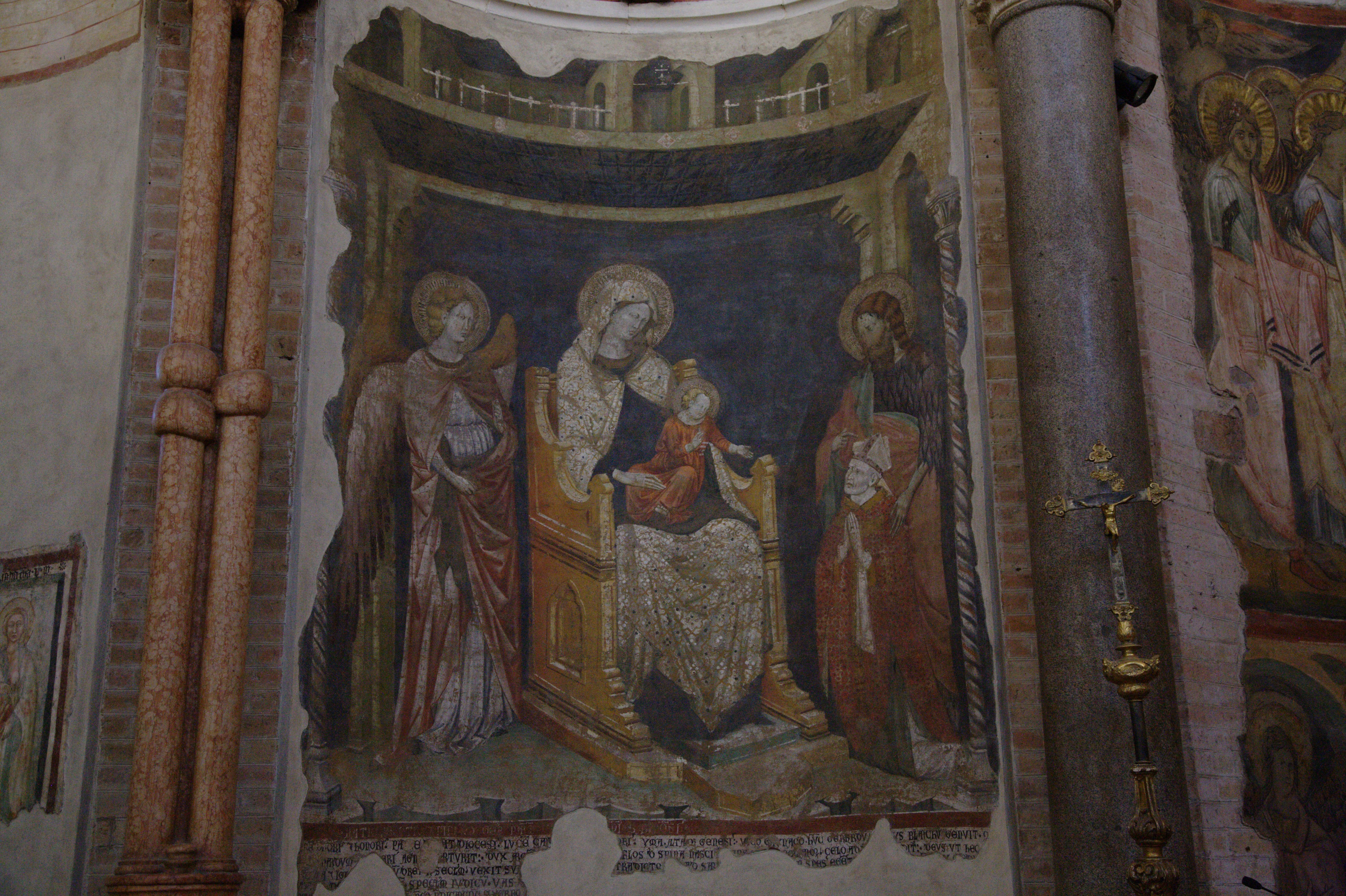 From the interior of the Baptistry in Parma